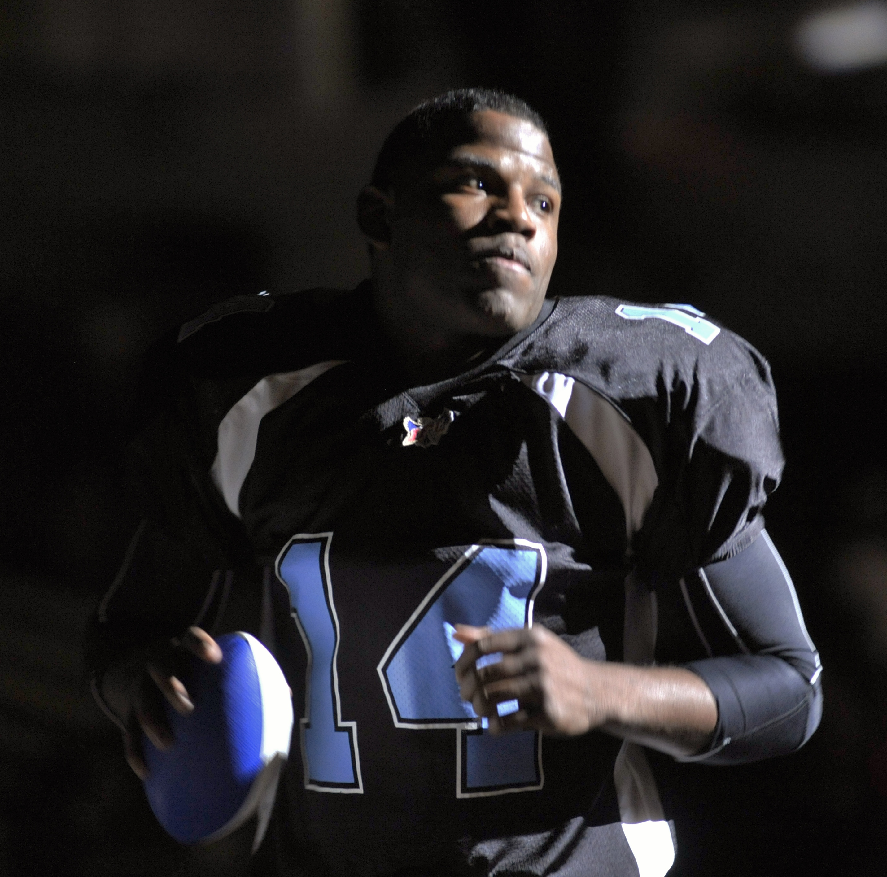 Vickiel Vaughn, No. 14 of the Arkansas Diamonds, prepares to enter the field March 27 at Verizon Arena. The Arkansas Diamonds battled the Abilene Ruff Riders for Military Appreciation Night. (U.S. Air Force photo by Senior Airman Christine Clark)